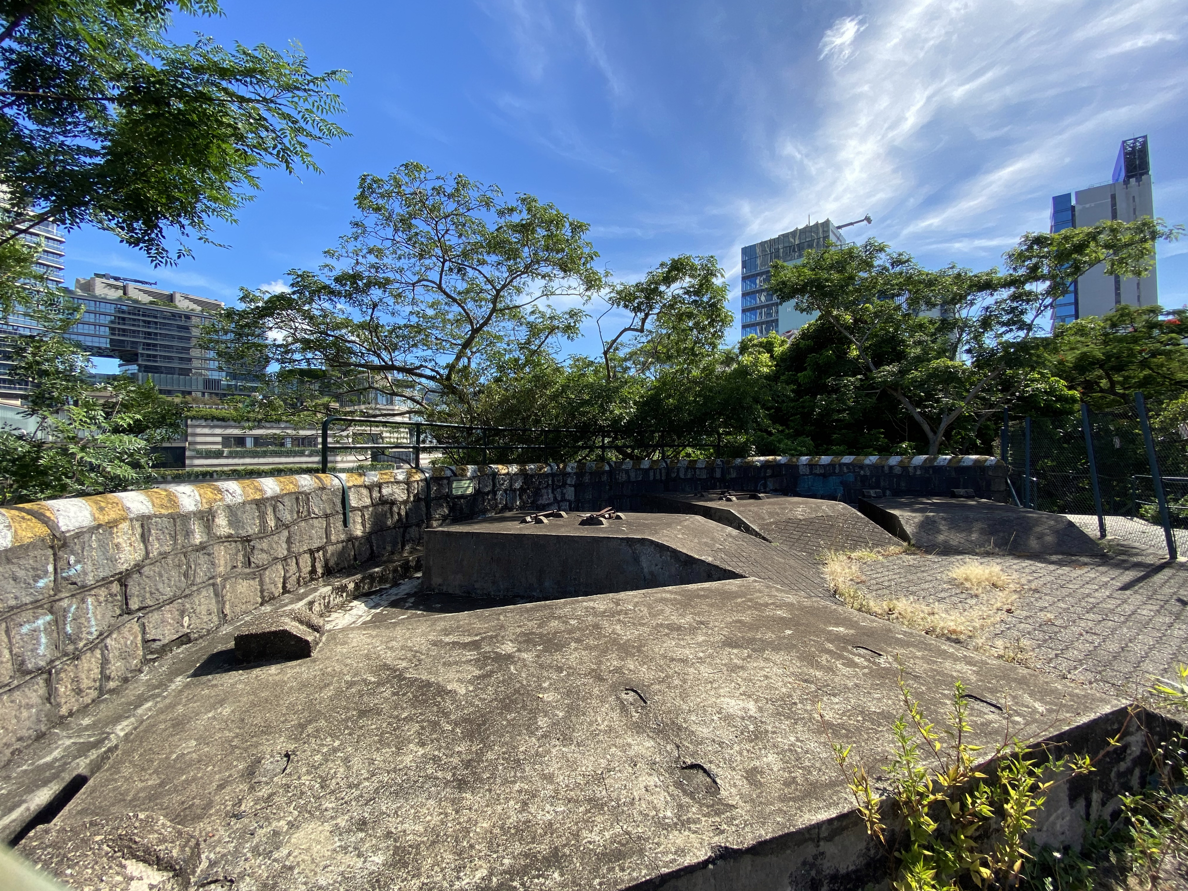 Removed cannon in Signal Hill Garden